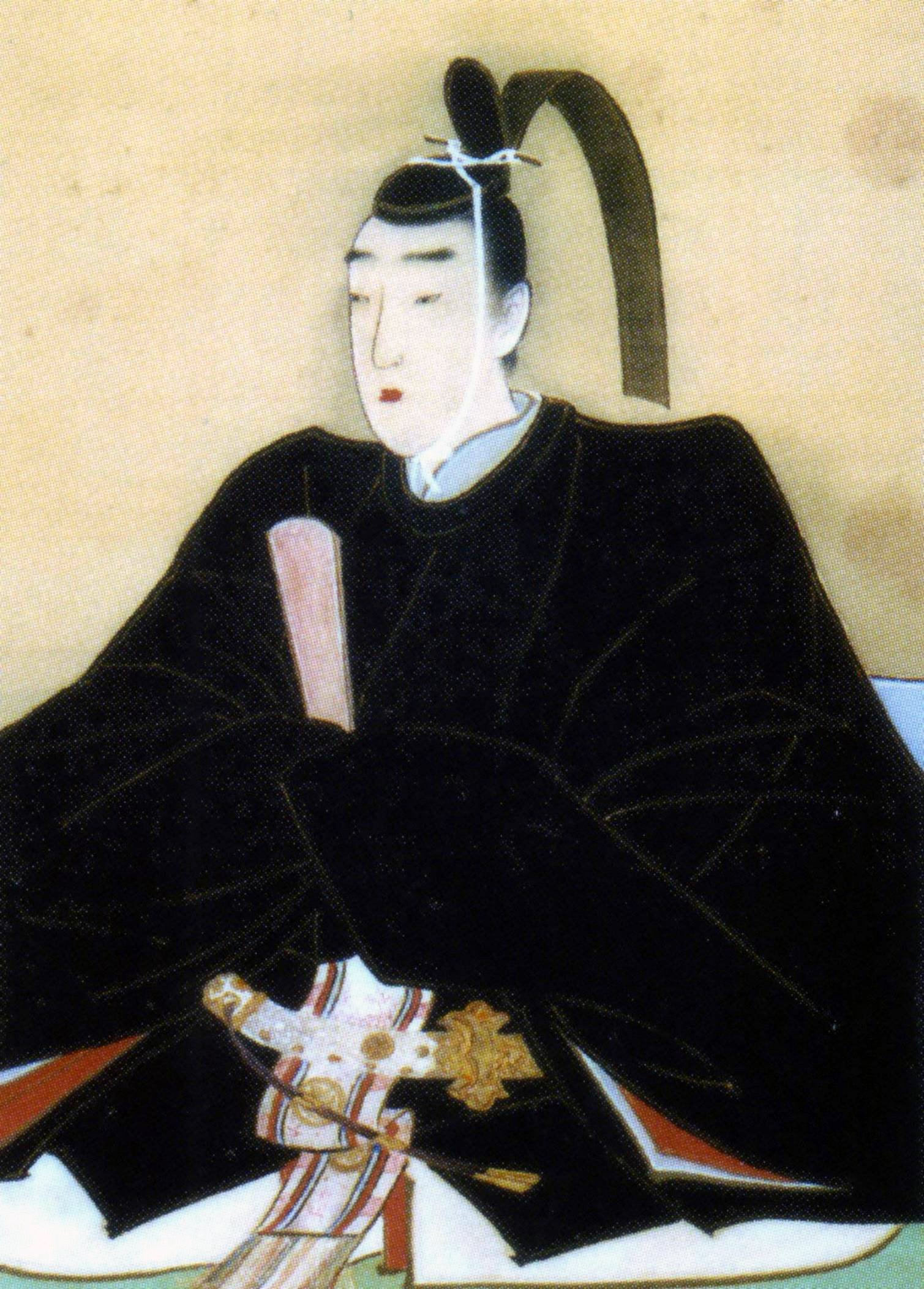 portrait of Ikeda Narikuni(the 7th feudal lord of Tottori clan)